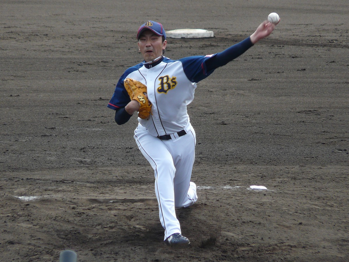 OB-Akio-Shimuzu20100505